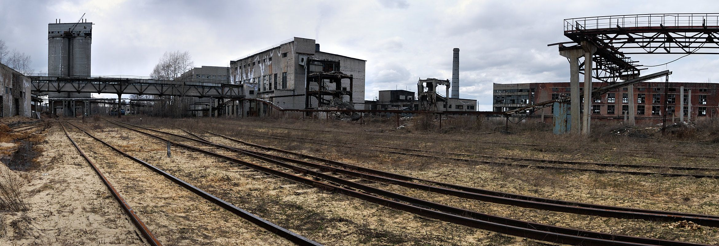 Рудничный,ВКФР